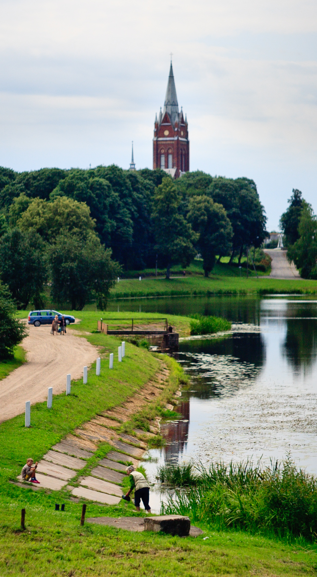 Church and Kelmė city panorama